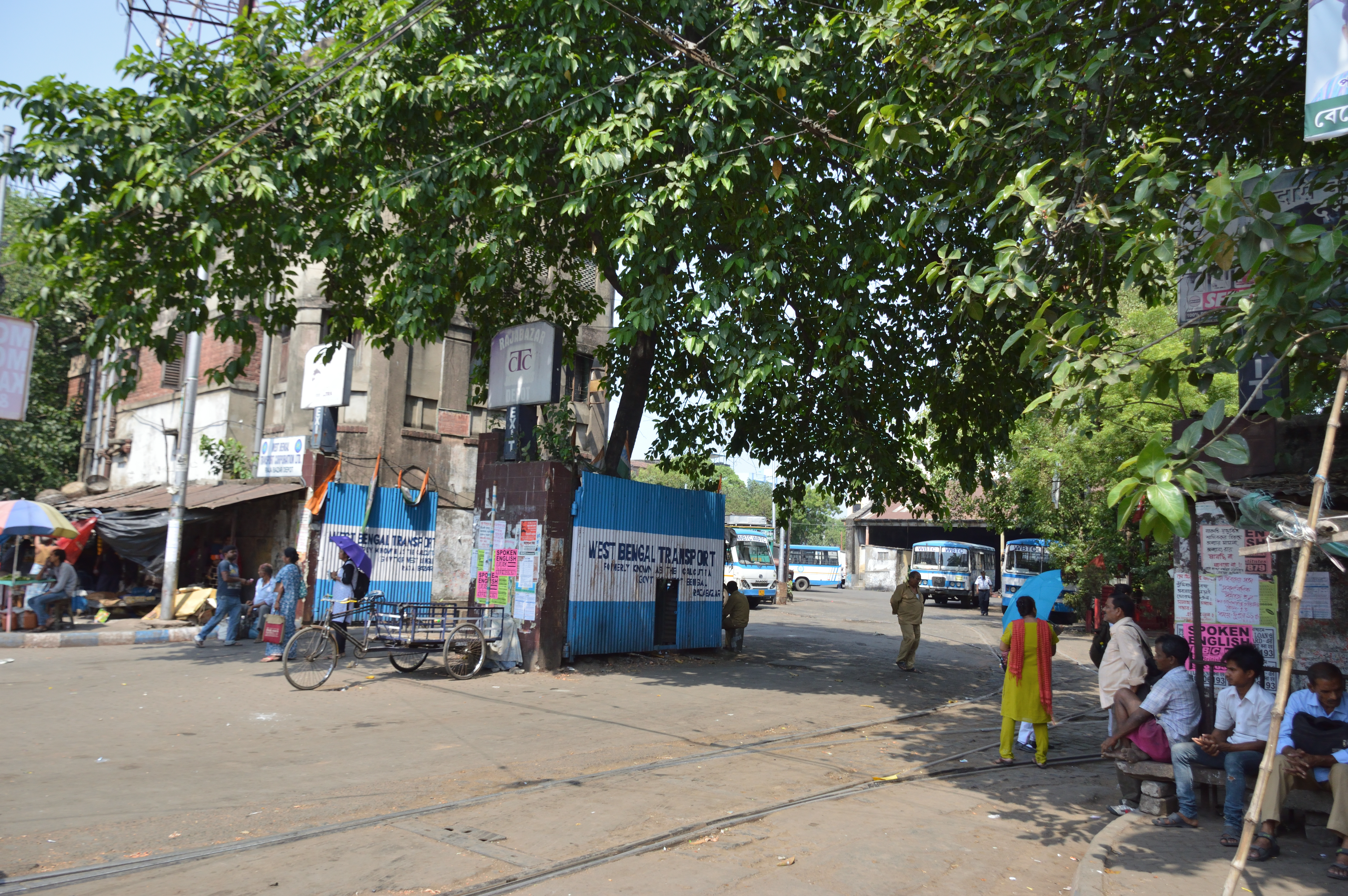 Photographed in Kolkata.